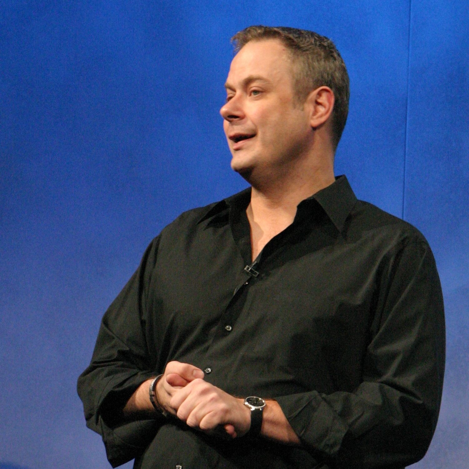 Ray Winninger at MIX08